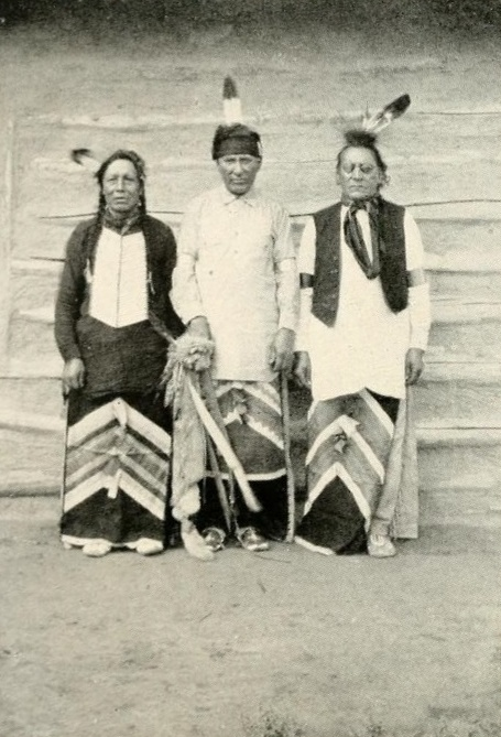 Former Arikara Indian scouts Red Star (1858-?) (left), Boy Chief and Red Bear (1853-?) (right)